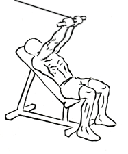 an exercise of triceps